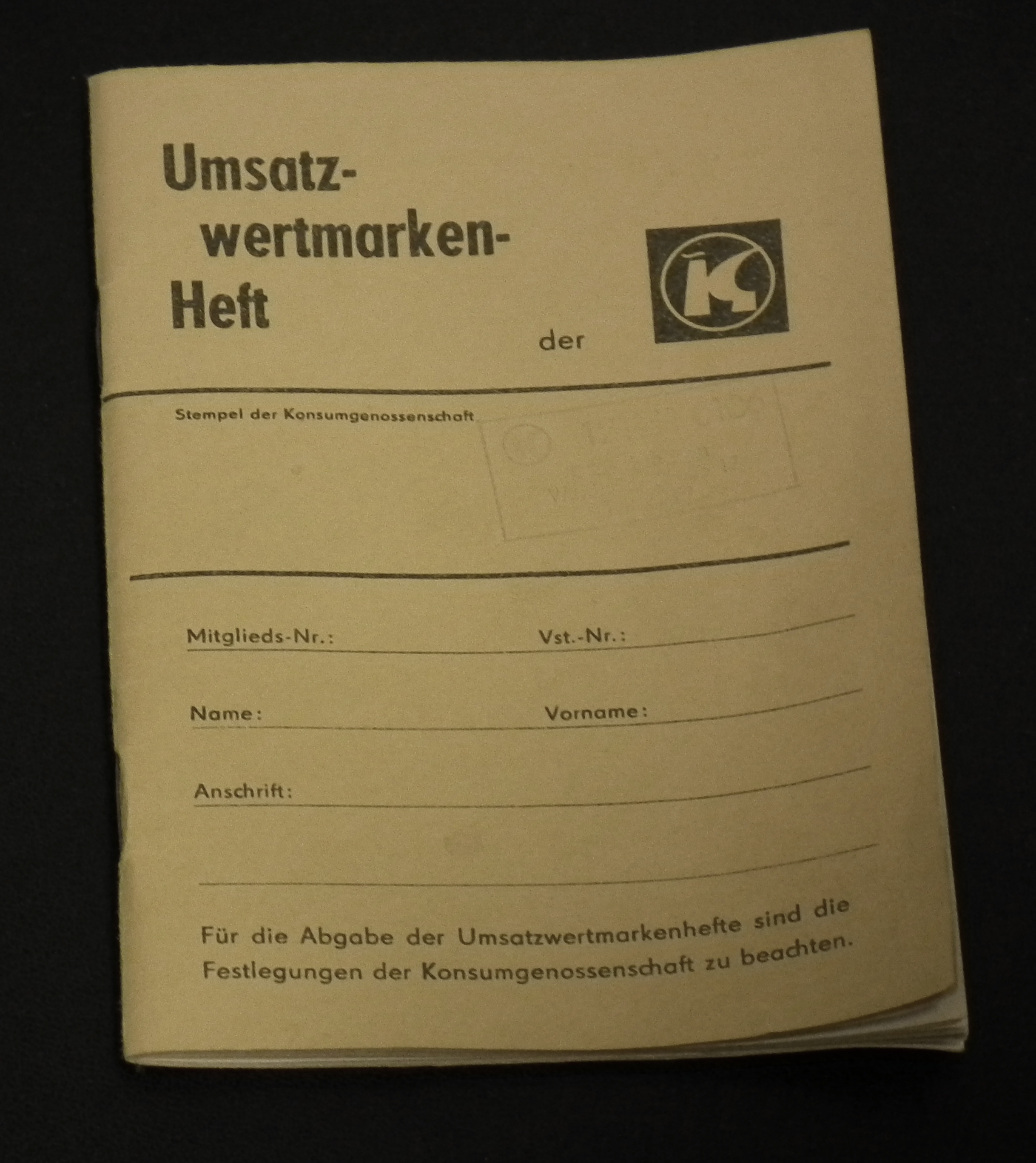 book for trading stamps, Konsum, GDR